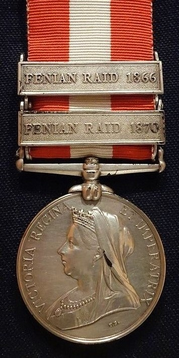 Exhibit in the Glenbow Museum, 130 9th Ave S.E., Calgary, Alberta, Canada. This work is in the public domain.